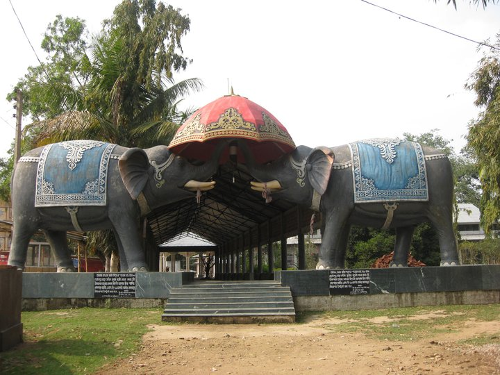 DHEKIAKHUWA BORNAMGHOR